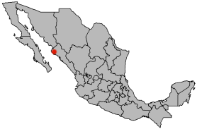 Location of Los Mochis, Sinaloa, Mexico